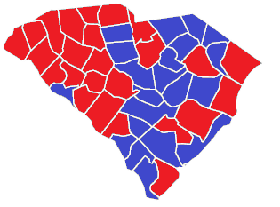 Results of the 2004 Senate election in South Carolina by county